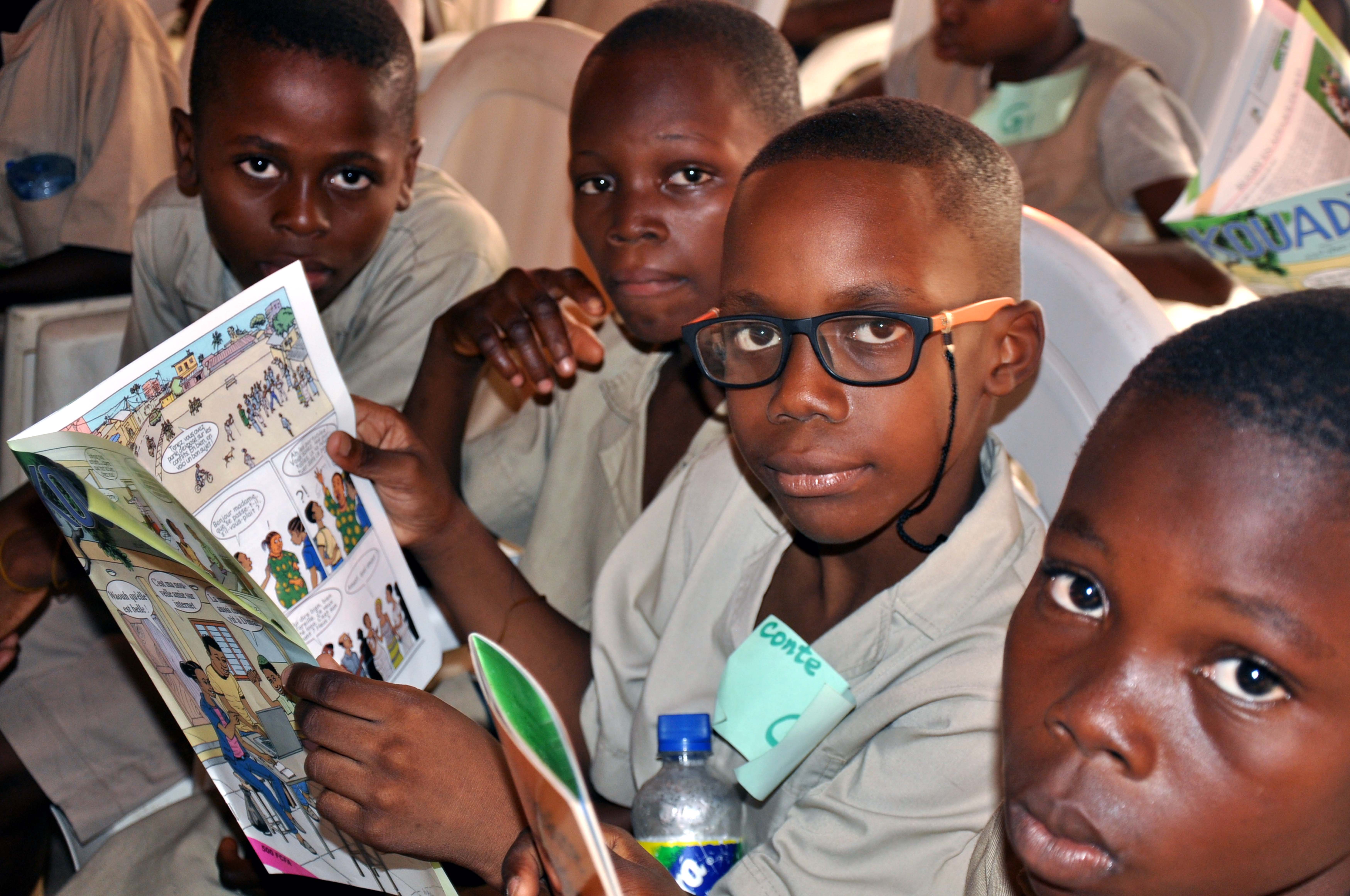 the parents' relay is slowly being prepared through these schoolchildren who are concentrating on their study This is an image with the theme "Africa on the Move or Transport" from: Benin